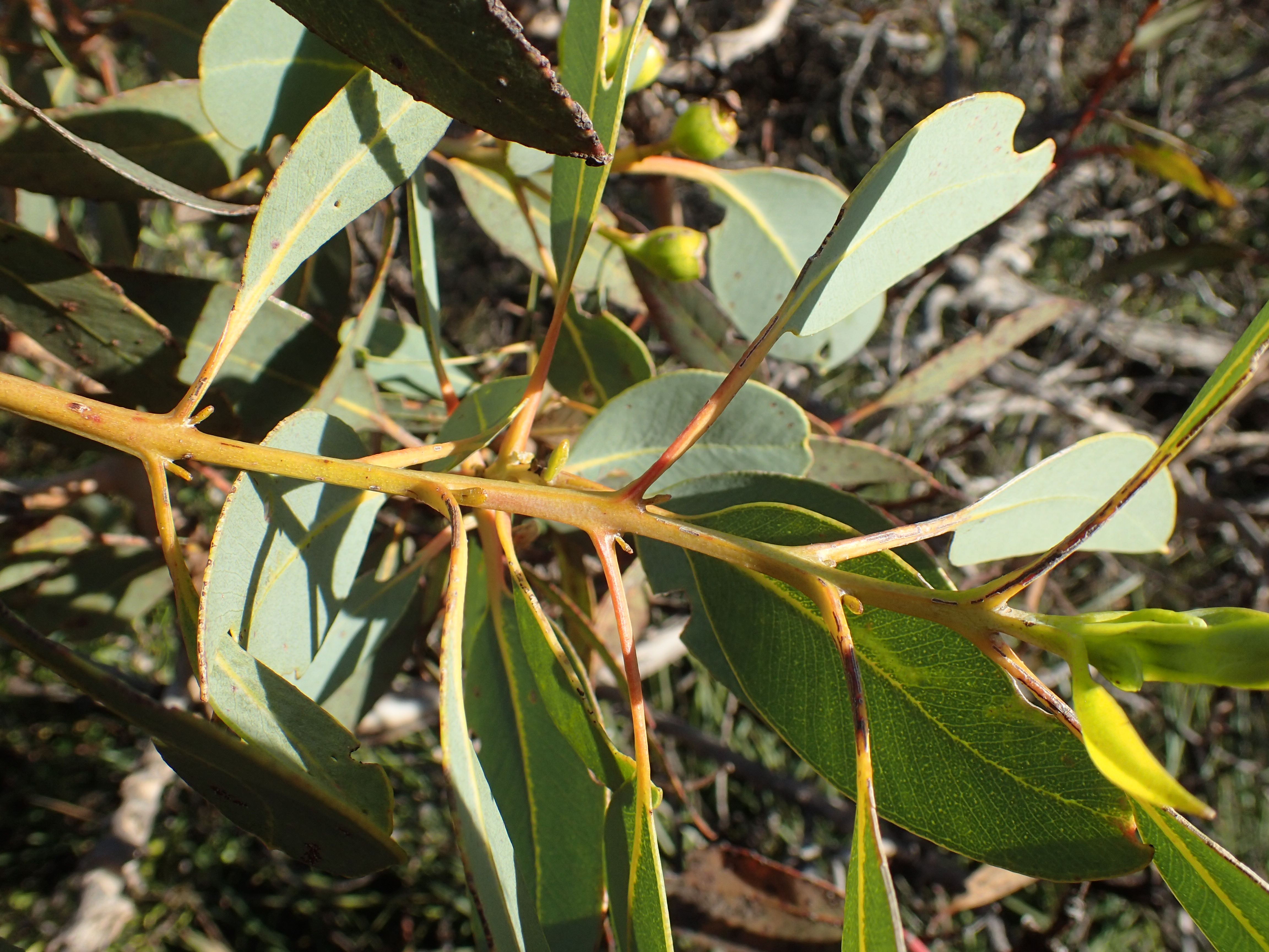 Leaf arrangement of Eucalyptus extrica - leaves in (almost) opposite pairs